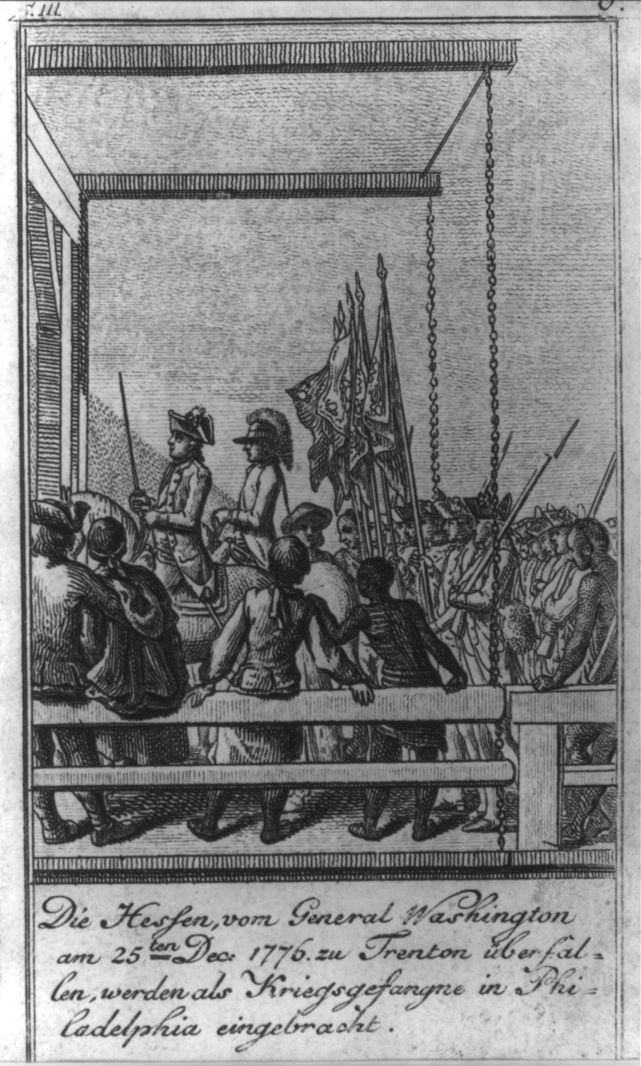 The Hessian held up by General Washington on December 25, 1776 at Trenton are earned as prisoners of war in Philadelphia. Engraving shows Hessian soldiers captured during the battle at Trenton enroute to Philadelphia. CREATED/PUBLISHED: 1784. ARTIST: Daniel Chodowiecki. ENGRAVER: Daniel Berger. REPOSITORY: Library of Congress Prints and Photographs Division Washington, D.C.